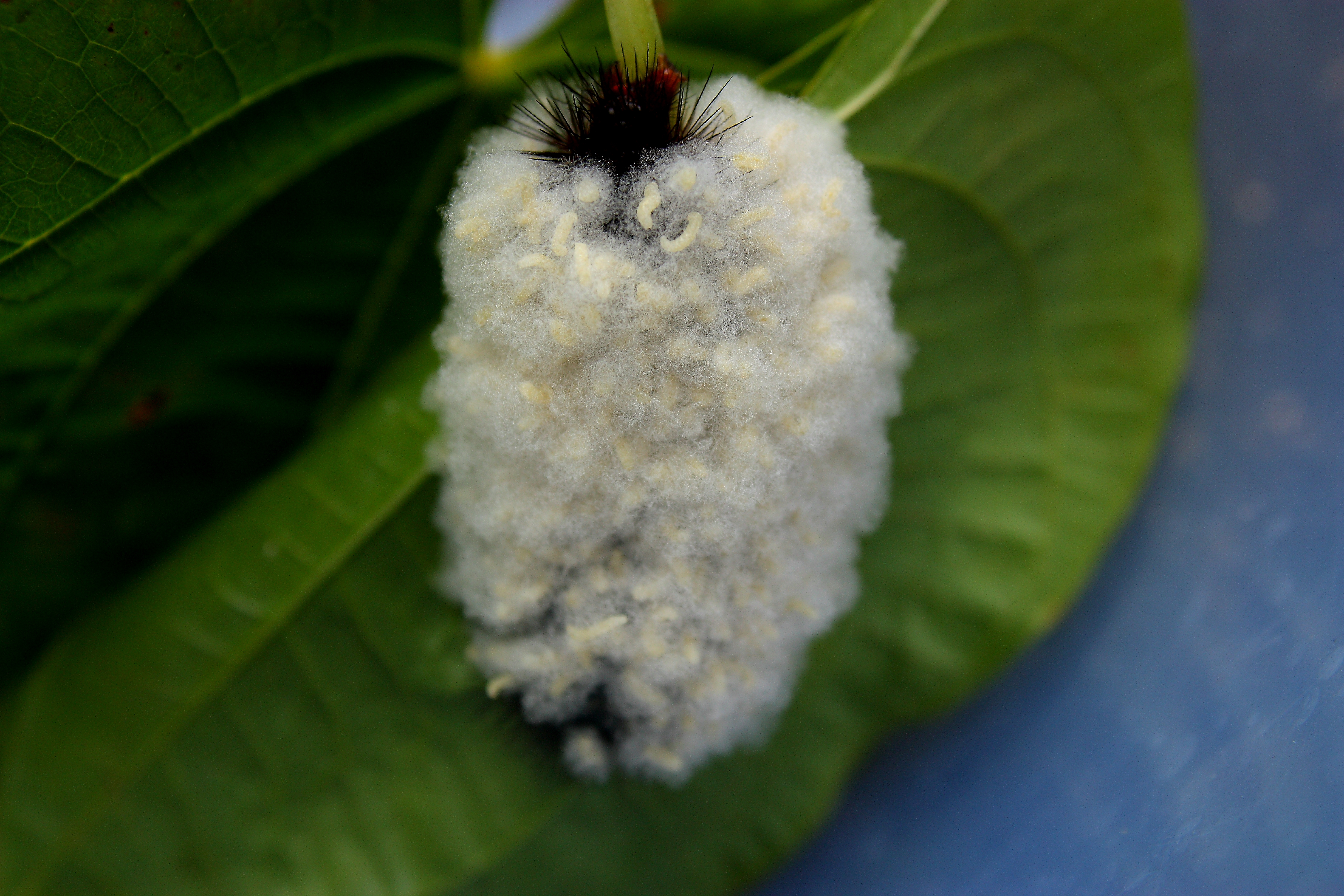 Brachnoid Wasp Larvae spin their cocoons around the exterior of a Hypercompe scriboni larva after exiting its body. This is a massive nest of the parasitoids that typically does not get quite this big.